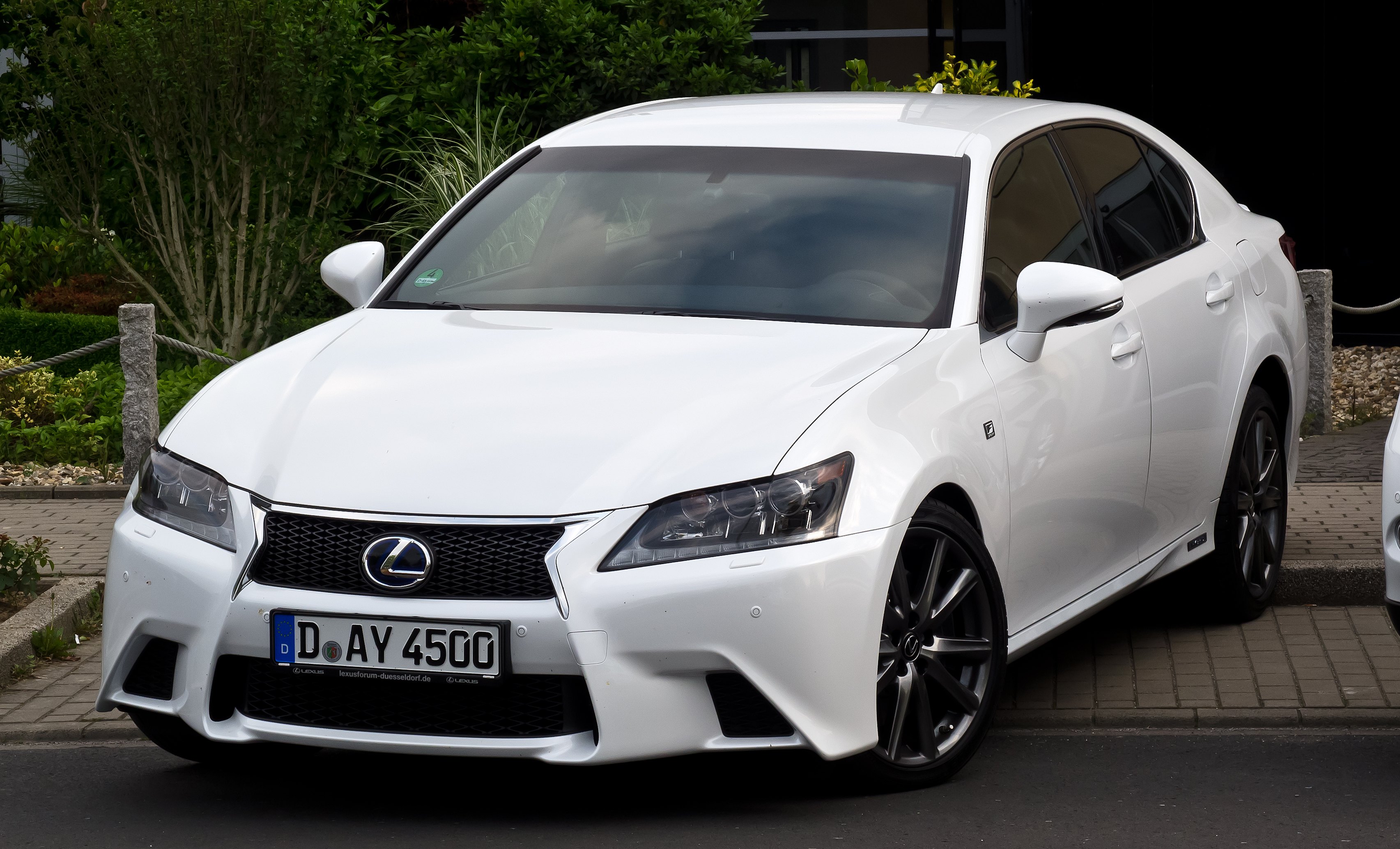 Lexus GS 450h F Sport (IV)